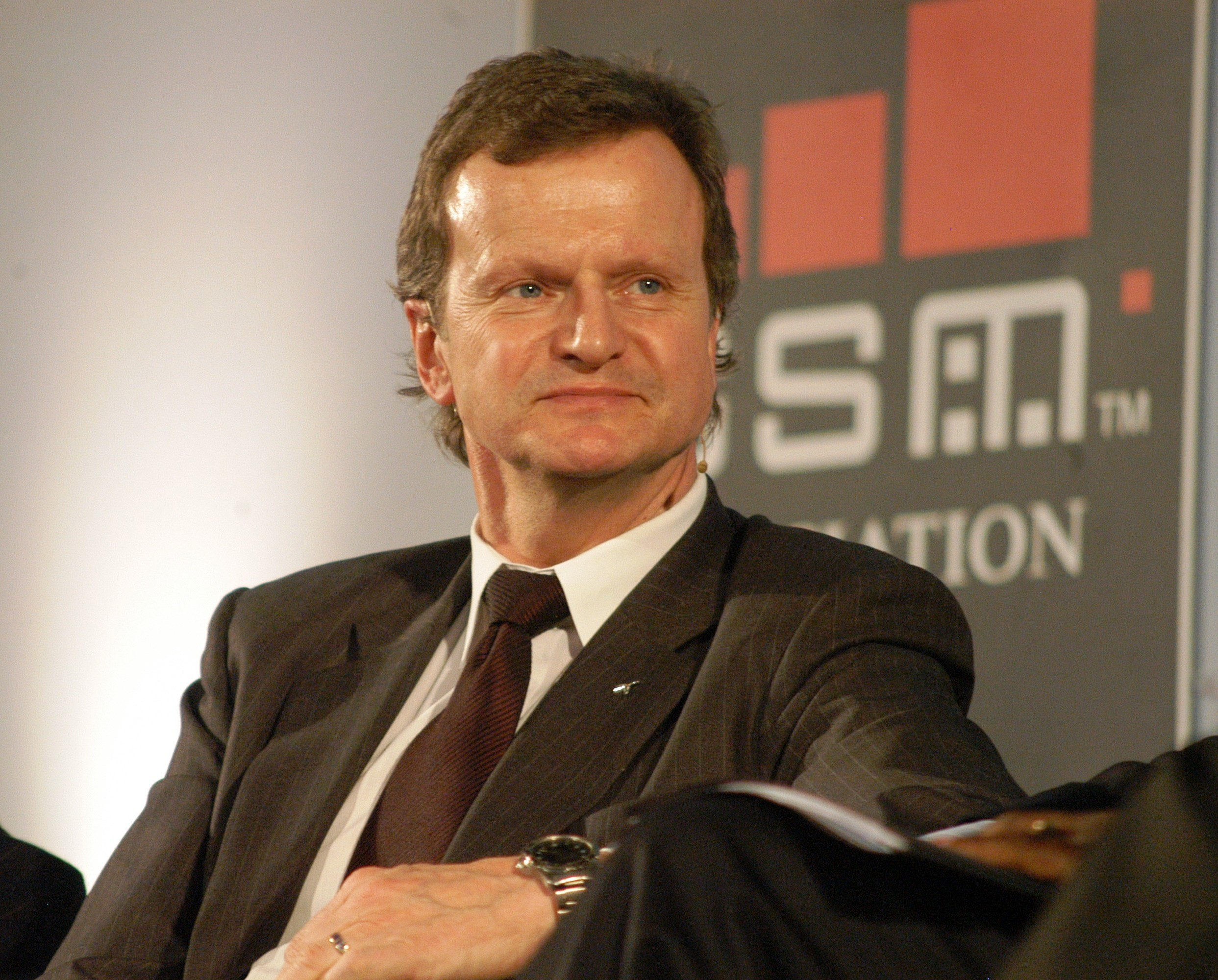 Jon Fredrik Baksaas,CEO of Telenor Group, and Vice President of GSMA.